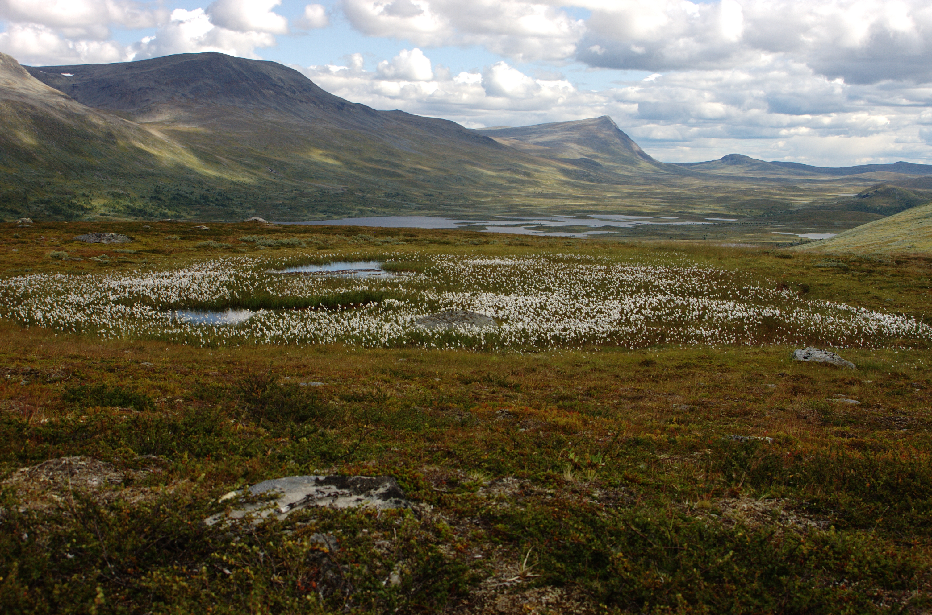 View on the landscape of the Vindelfjällen Nature Reserve in Västerbottens län/Sweden